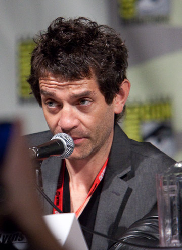 The Cape Panel - James Frain Speaks